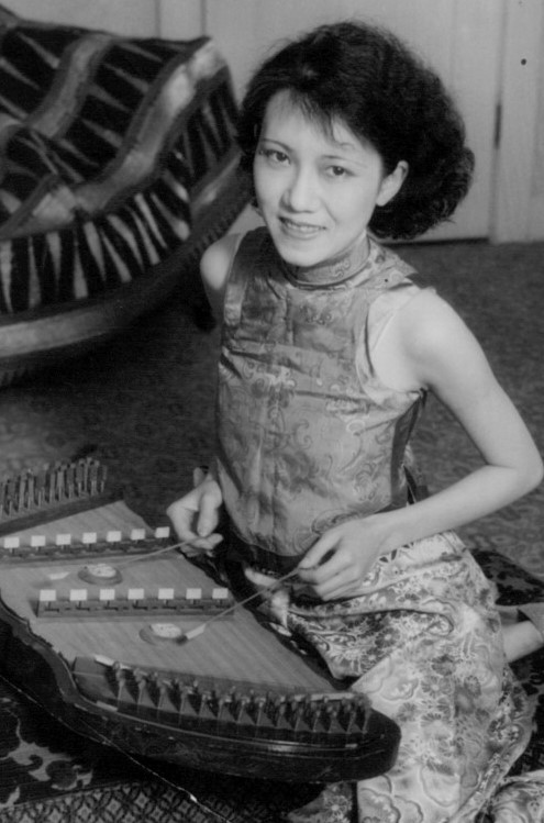 Olive Young playing the Chinese version of the hammered dulcimer. Young was an American (Chinese decent) who became an actress in China. She pursued acting in Hollywood and sang.